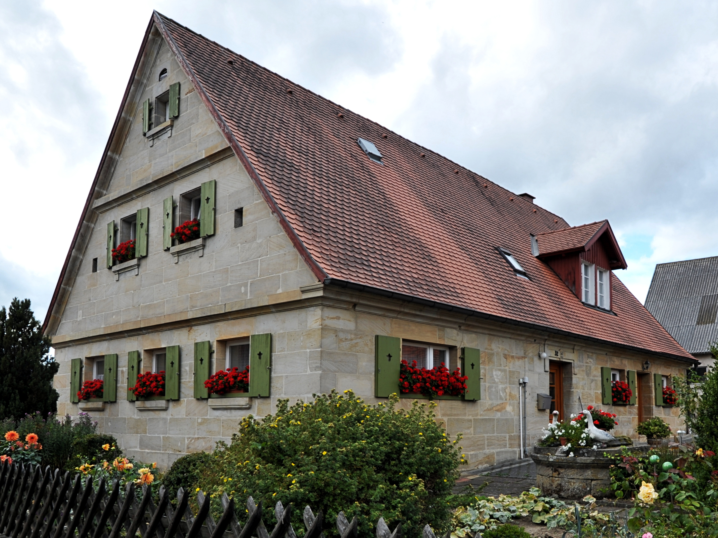 farmhouse (byre-dwelling) in Eckersdorf (Bavaria, Upper Franconia), Sandstone building with a saddle roof